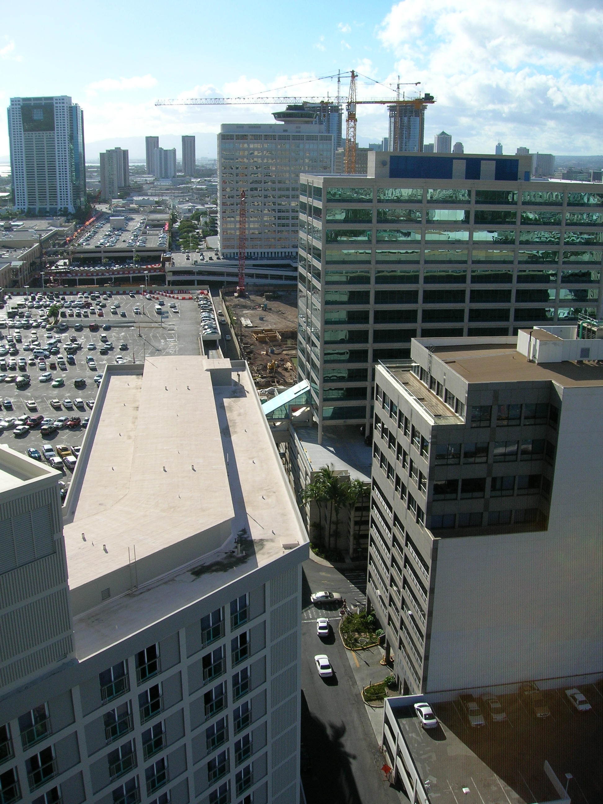 Strelitzia reginae (city and mall construction view). Location: Oahu, Ala Moana Hotel